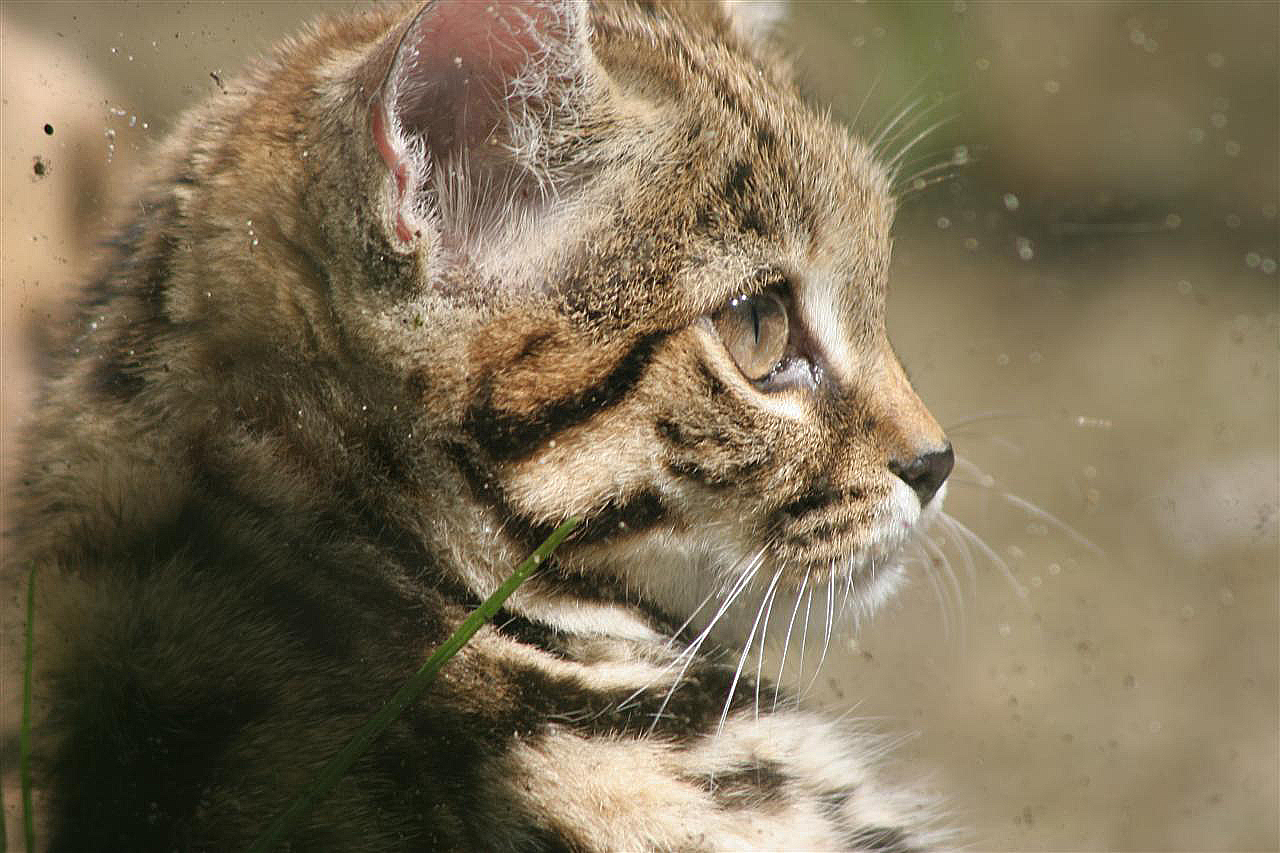 A black-footed cat (Felis nigripes) in the zoo of Wuppertal.